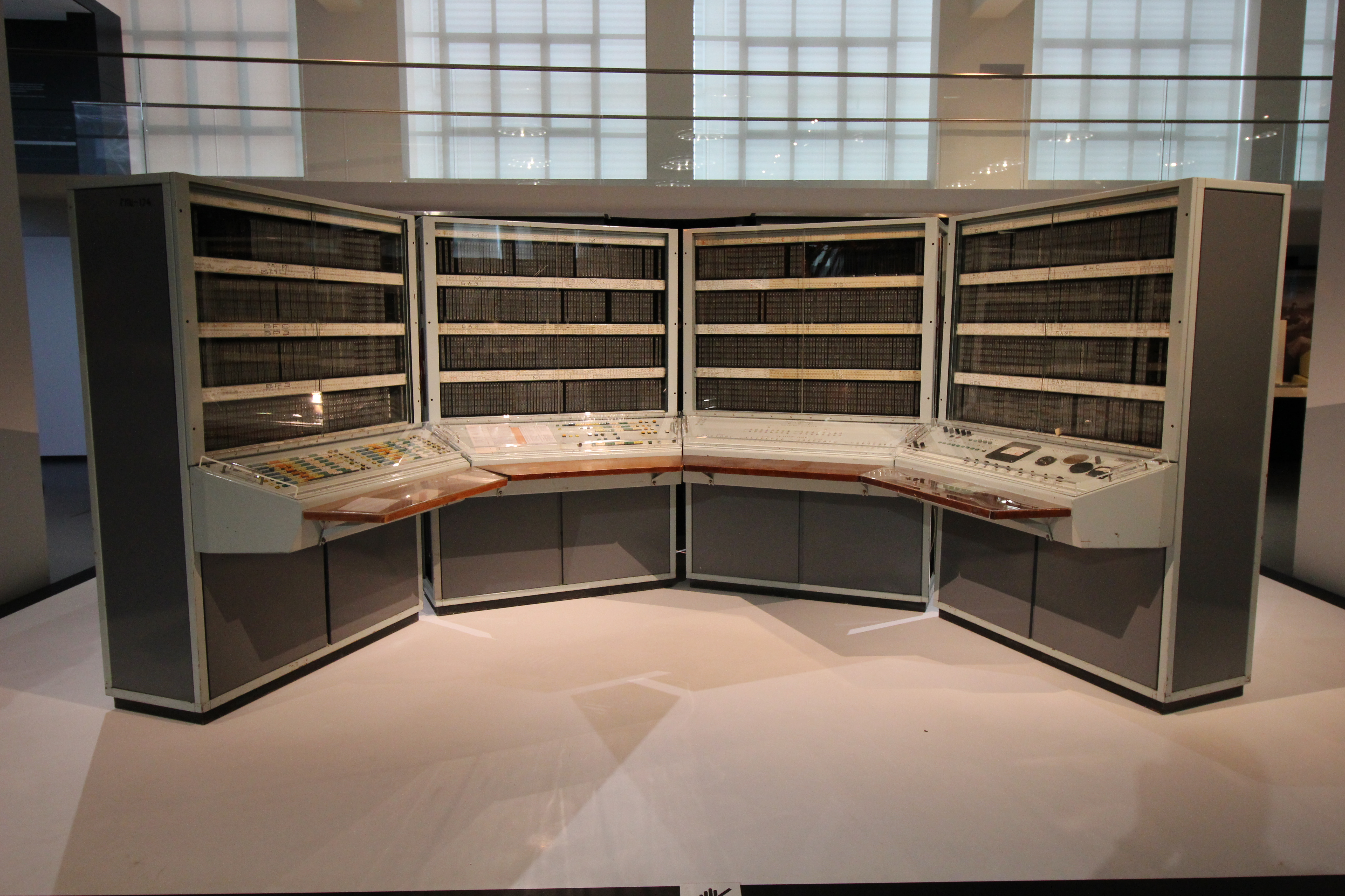 Picture of USSR BESM-6 supercomputer, at the London Science Museum.